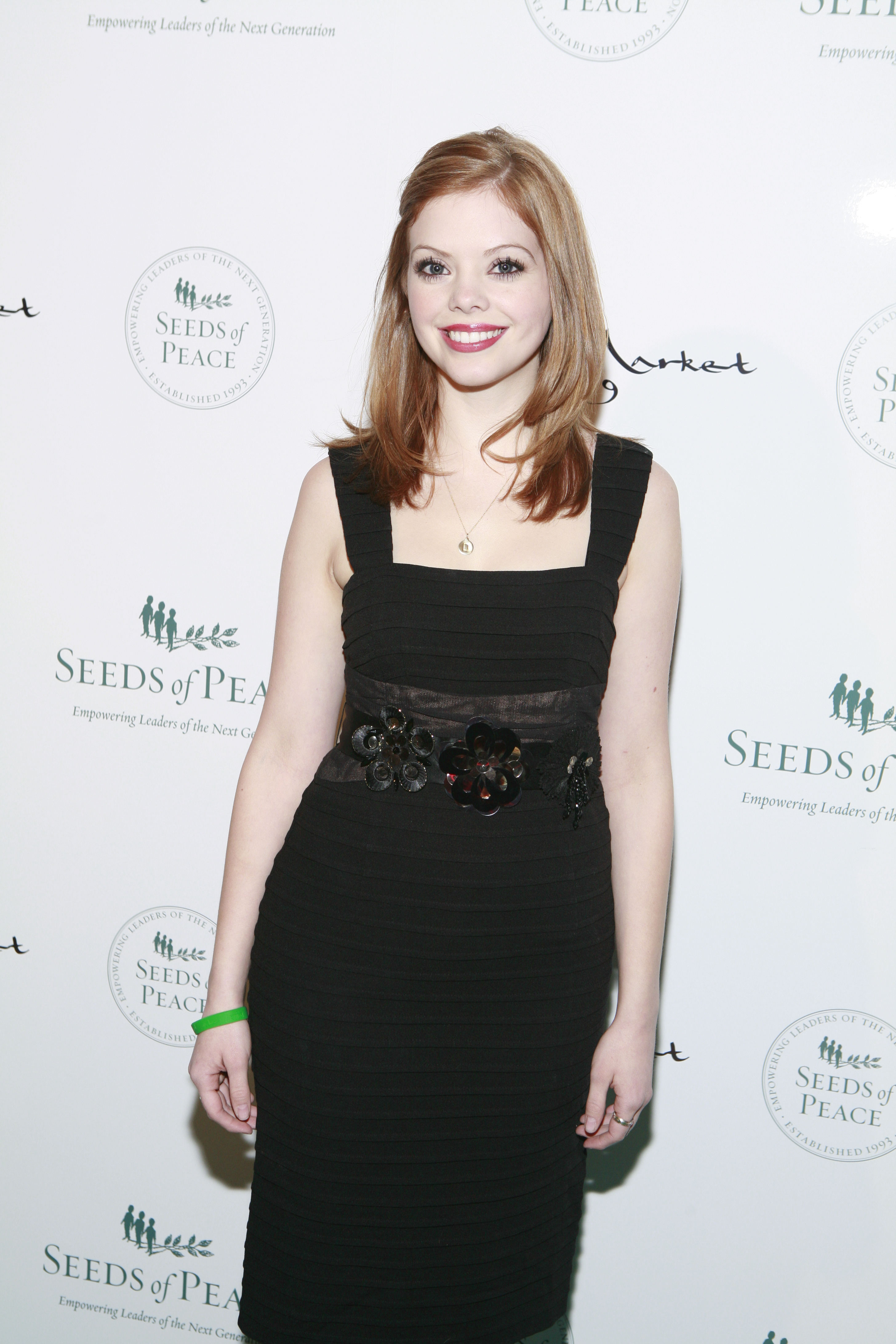 Dreama Walker at Seeds of Peace 2009 (19 February)